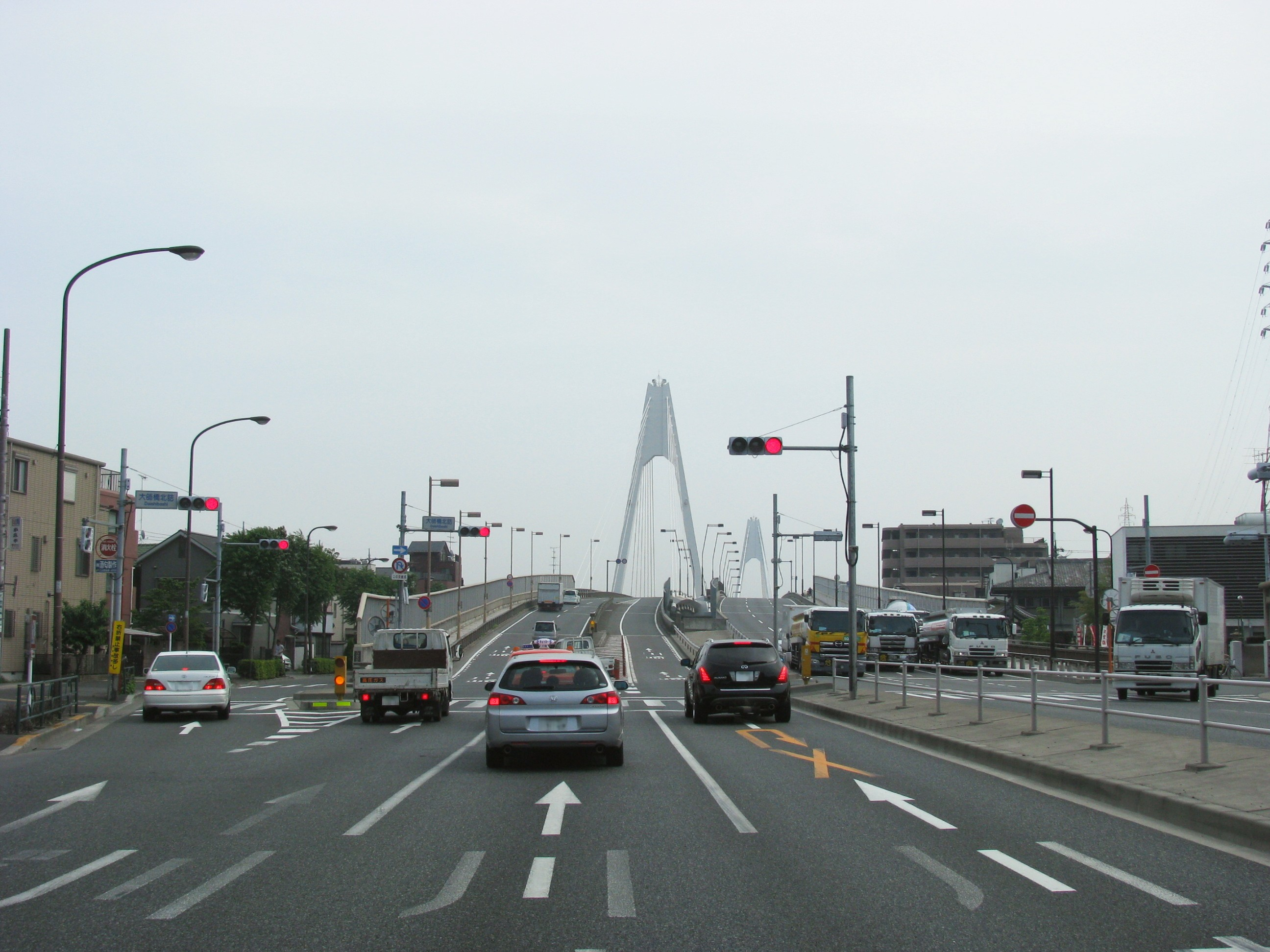 The Tokyo Prefectural Route 6. This location is Haneda in Ōta, Tokyo, Japan.